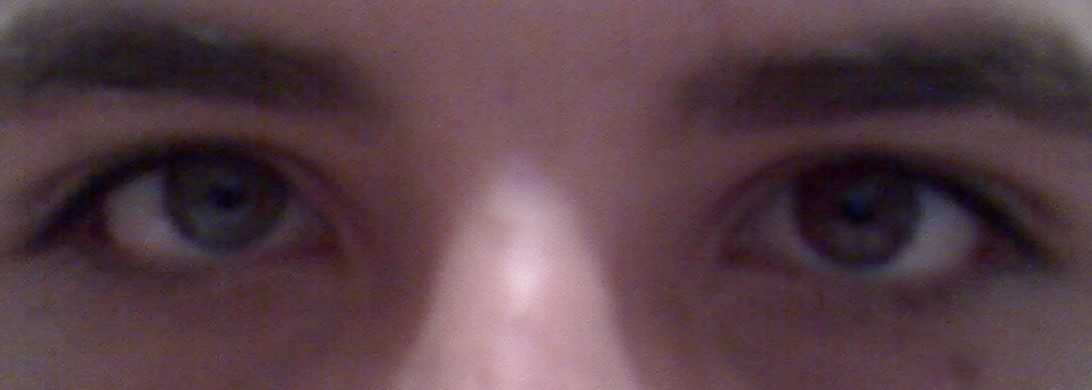 case of heterochromia